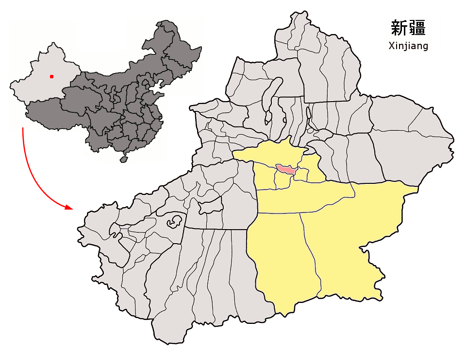 Location of Yanqi County (pink) and Bayin'gholin Prefecture (yellow) within Xinjiang autonomous region of China Map drawn in september 2007 using various sources, mainly : Xinjiang Uygur autonomous region administrative regions GIS data: 1:1M, County level, 1990 Xinjiang Counties map from